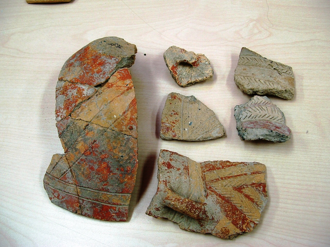 PNA - Yarmoukian Ware, small Jug with fishbone decoration, Israel